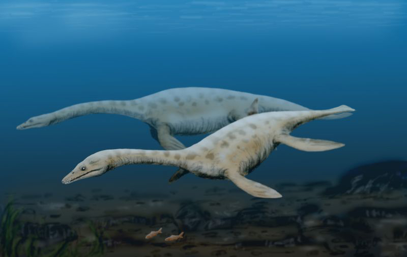 Augustasaurus hagdorni, a pistosaur from the Middle Triassic of nevada. Digital.